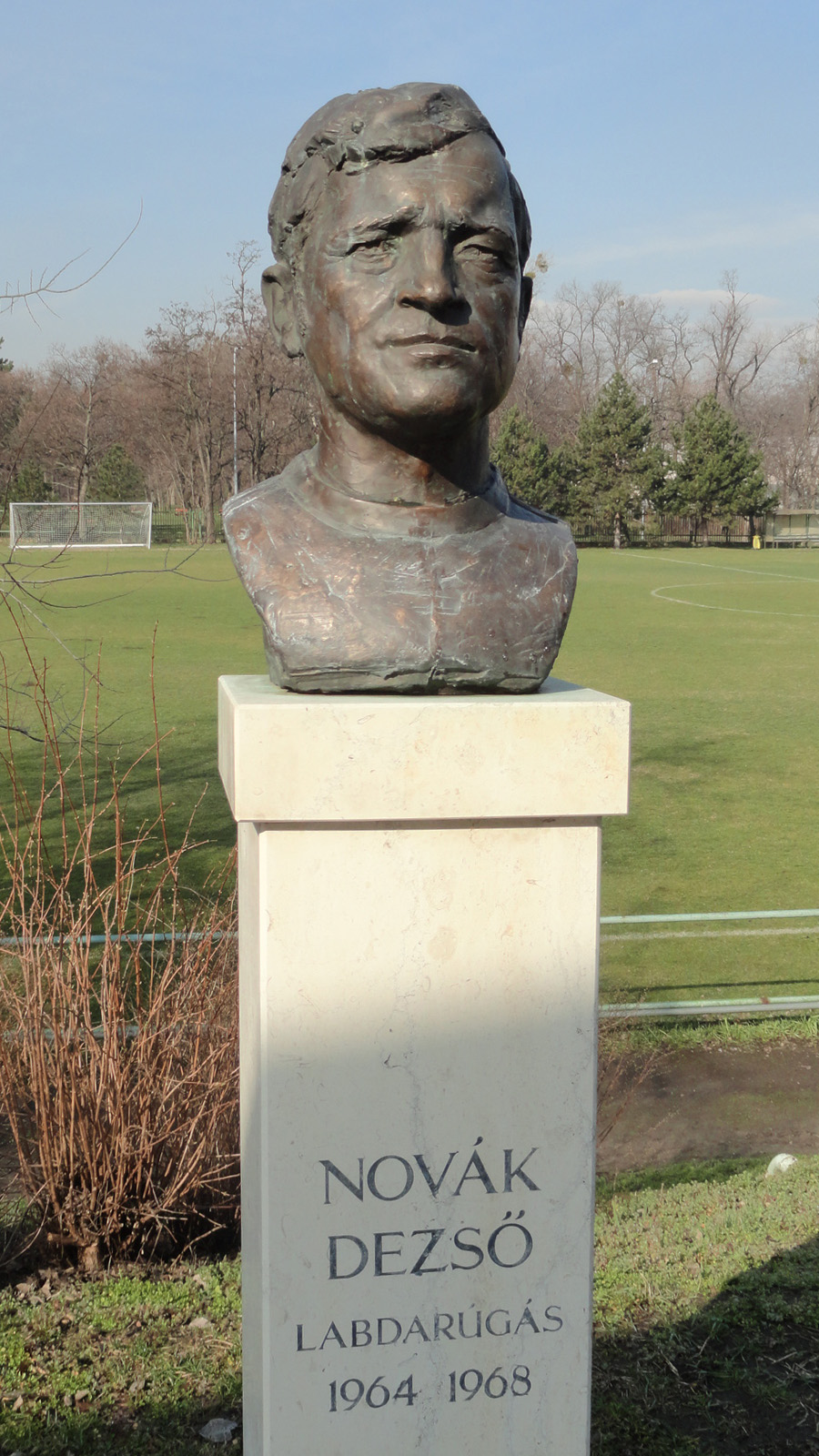 Dezső Novák, Hungarian association football player. 1964 and 1968 Summer Olympics - Gold Medal Winner